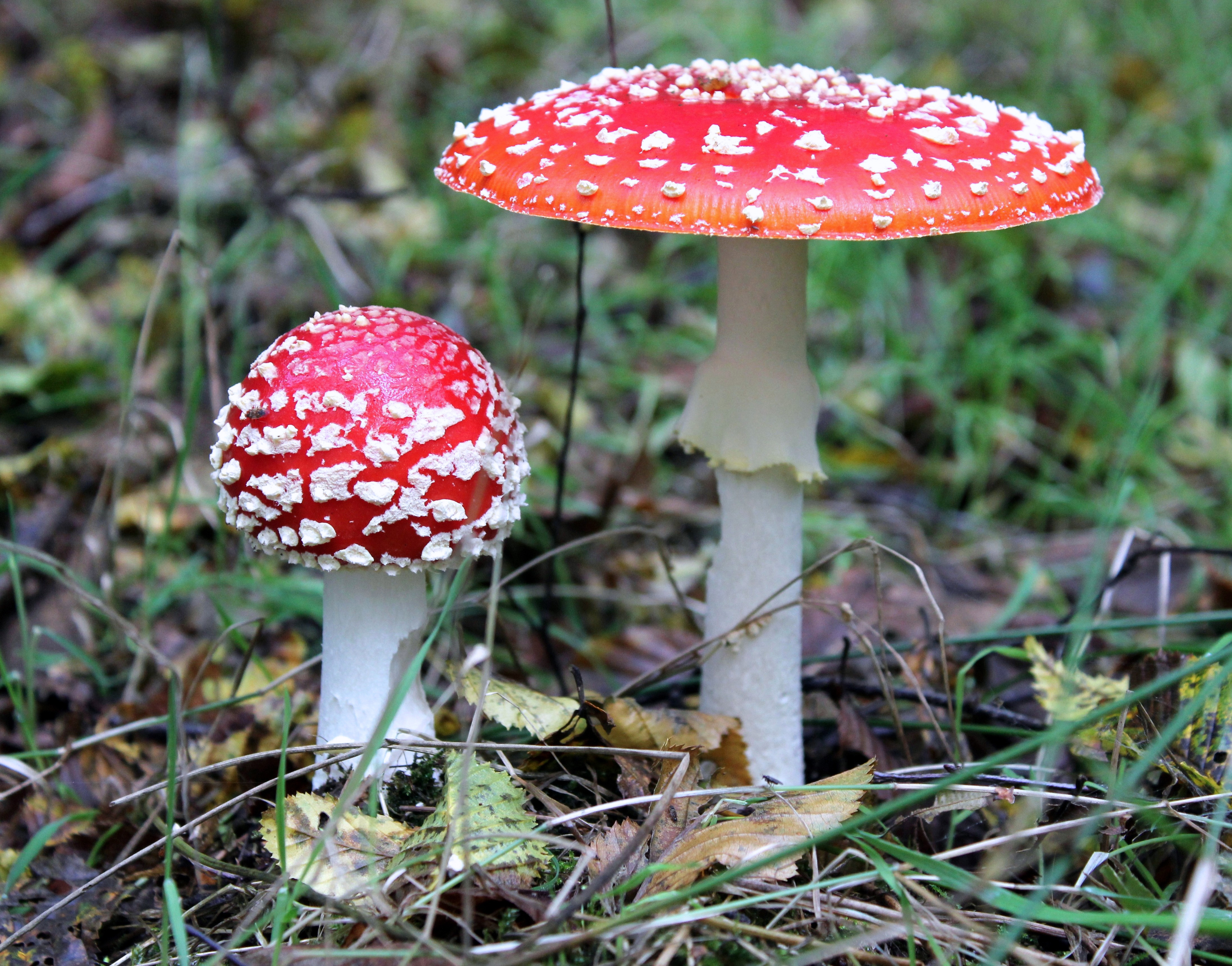 Fly Agaric